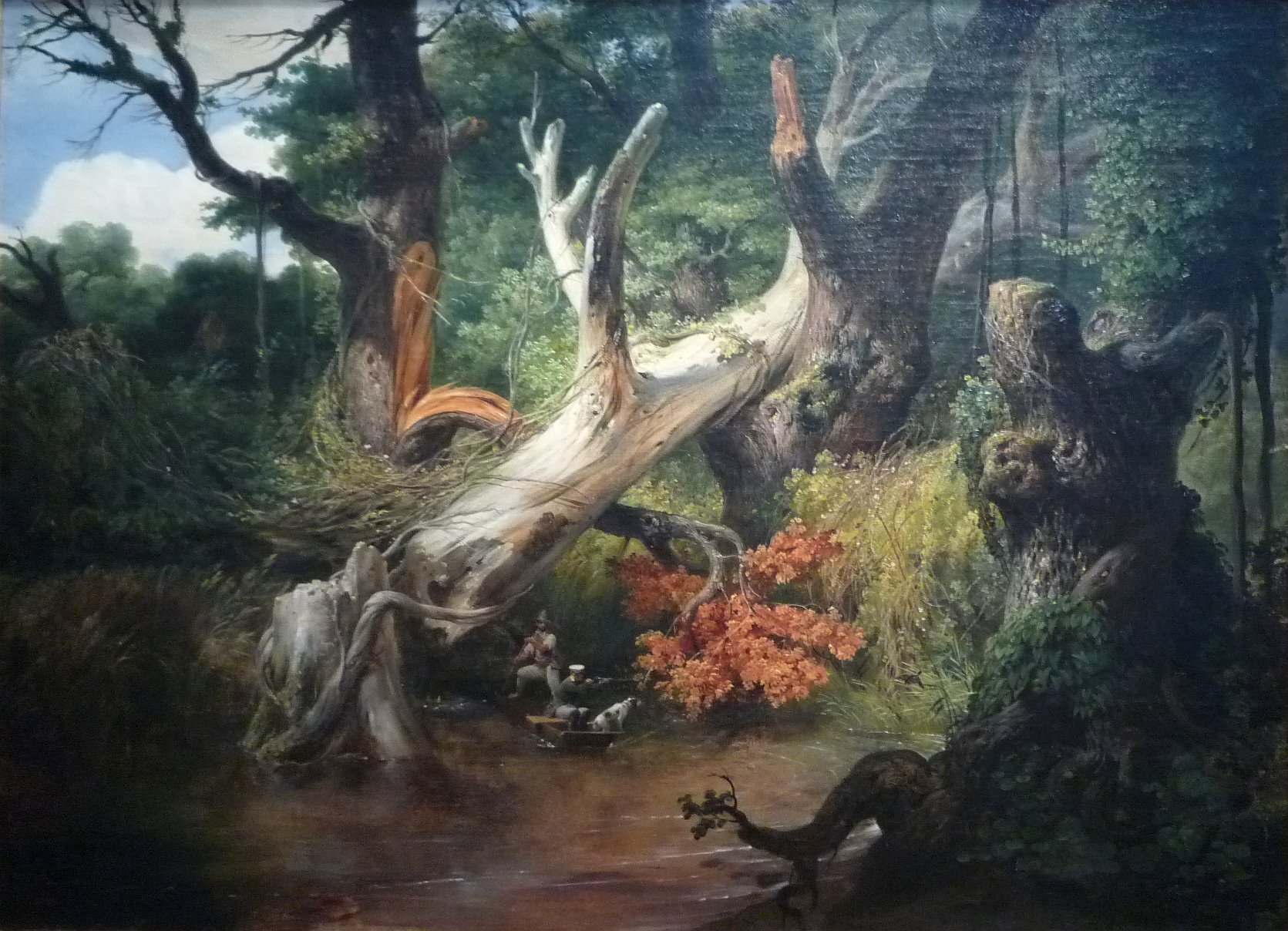 Hunting in the Pontine Marshes, Oil on canvas, 1833